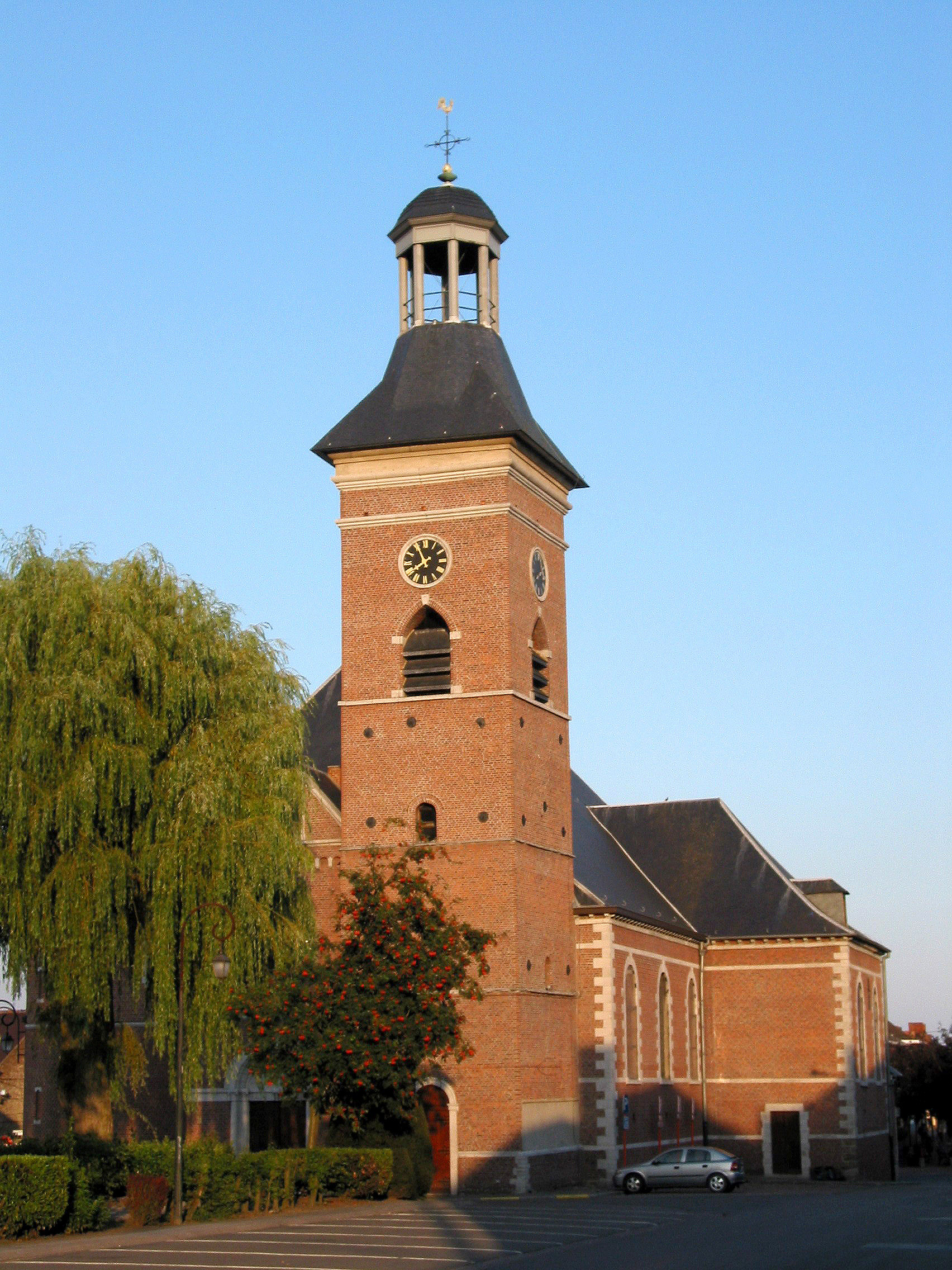 Frameries (Belgium), the Saint Waudru church.